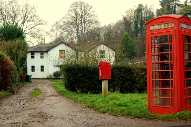 Stonehill Cottages Steventon Row of cottages below the railway embankment just off the main road that runs through the village.